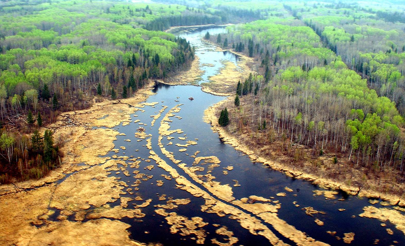 Cold Lake is a large lake in Northern Alberta and Saskatchewan, Canada.